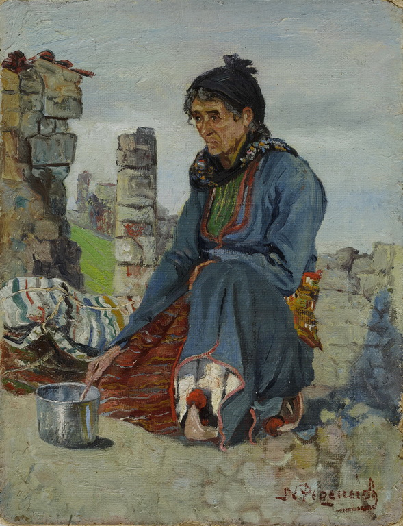 After the disaster (1912-1913)